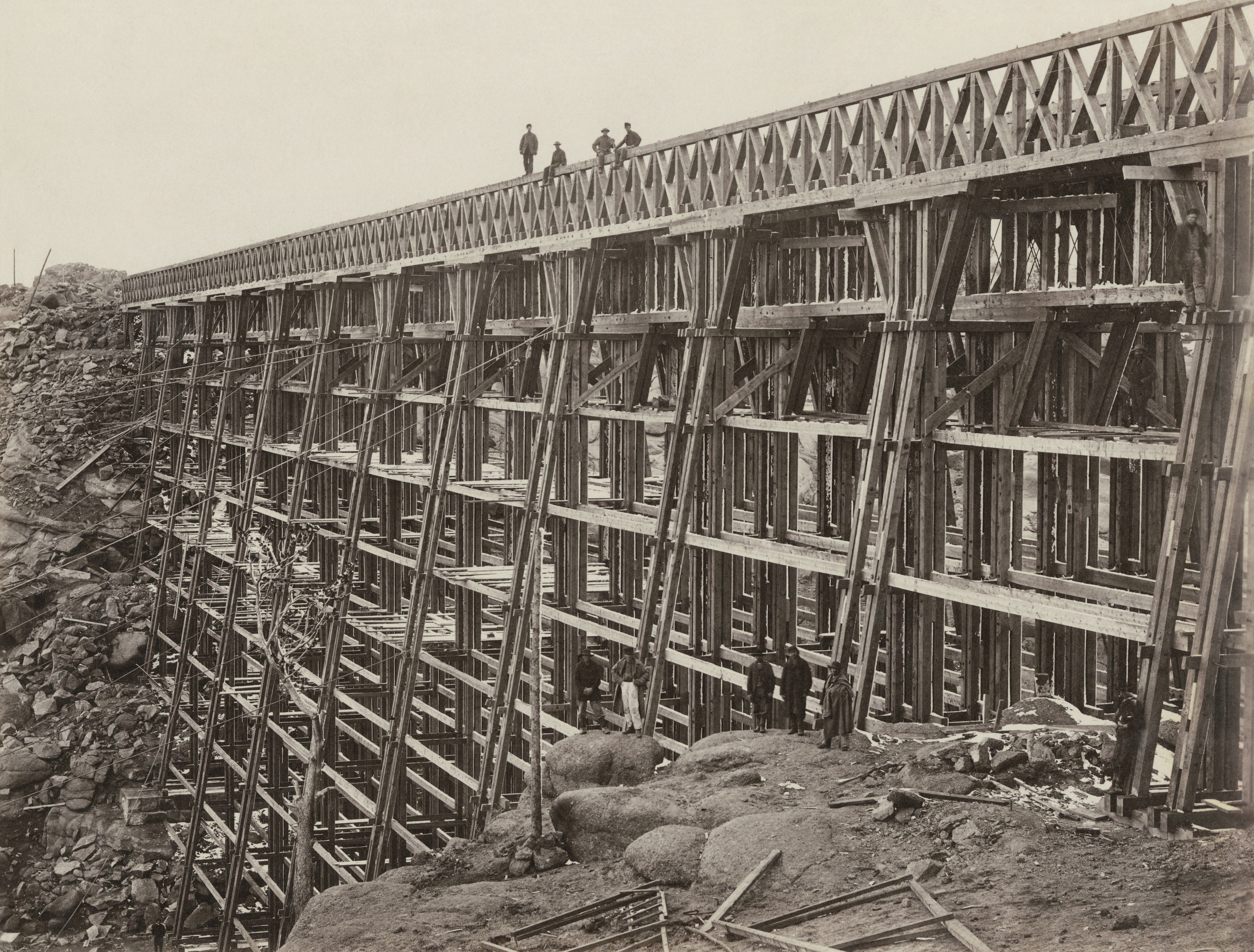 "Dale Creek Bridge," by photographer Andrew J. Russell, part of photographs taken during construction of the Union Pacific Railroad, 1864-1869." Black-and-white still image. Yale Collection of Western Americana, Beinecke Rare Book and Manuscript Library, Yale University, New Haven, Connecticut.